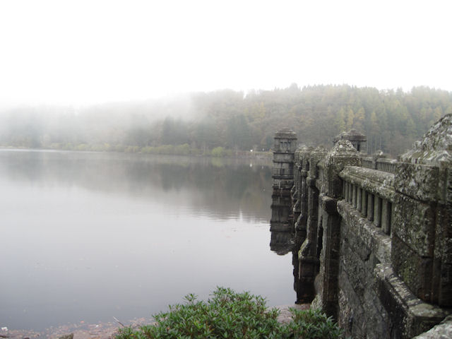 Dam wall in the mist at Lake Vyrnwy